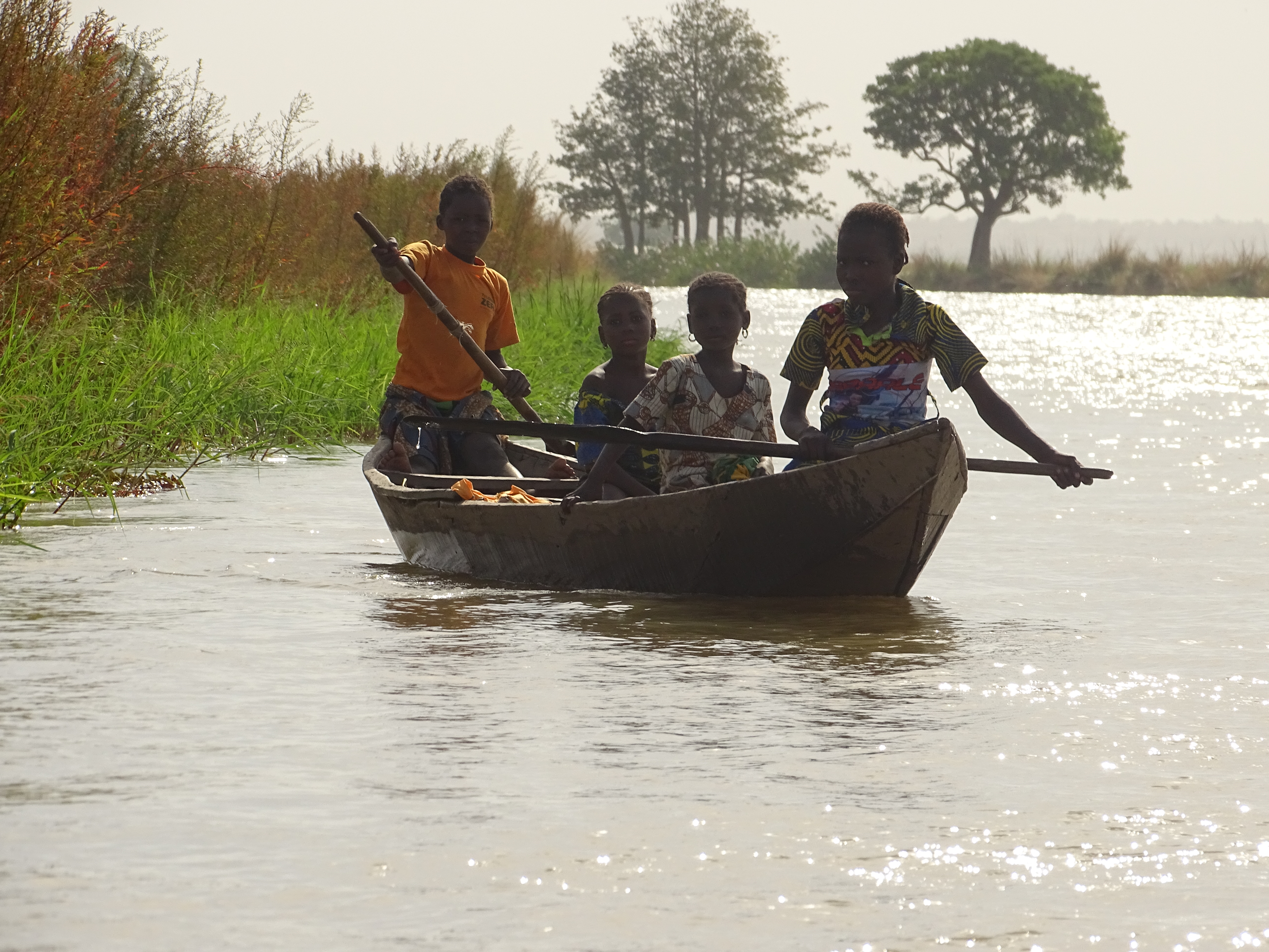 The commune of Karimama constitutes the northern tip of our country, Benin. It shares 2/3 of its surface with the W park and is separated from the neighboring state by the Niger river, the 2nd largest river in Africa. Bird Island is a tributary of the Niger River and an integral part of the RAMSAR 1668 wetland site of international importance, particularly as a habitat for waterbirds. on this river, several mainly Muslim communities comprising ethnic groups (Djermas, Peuhl, Dendi, Hausa) interact for better living conditions. Their main means of movement are canoes which they use for trade.